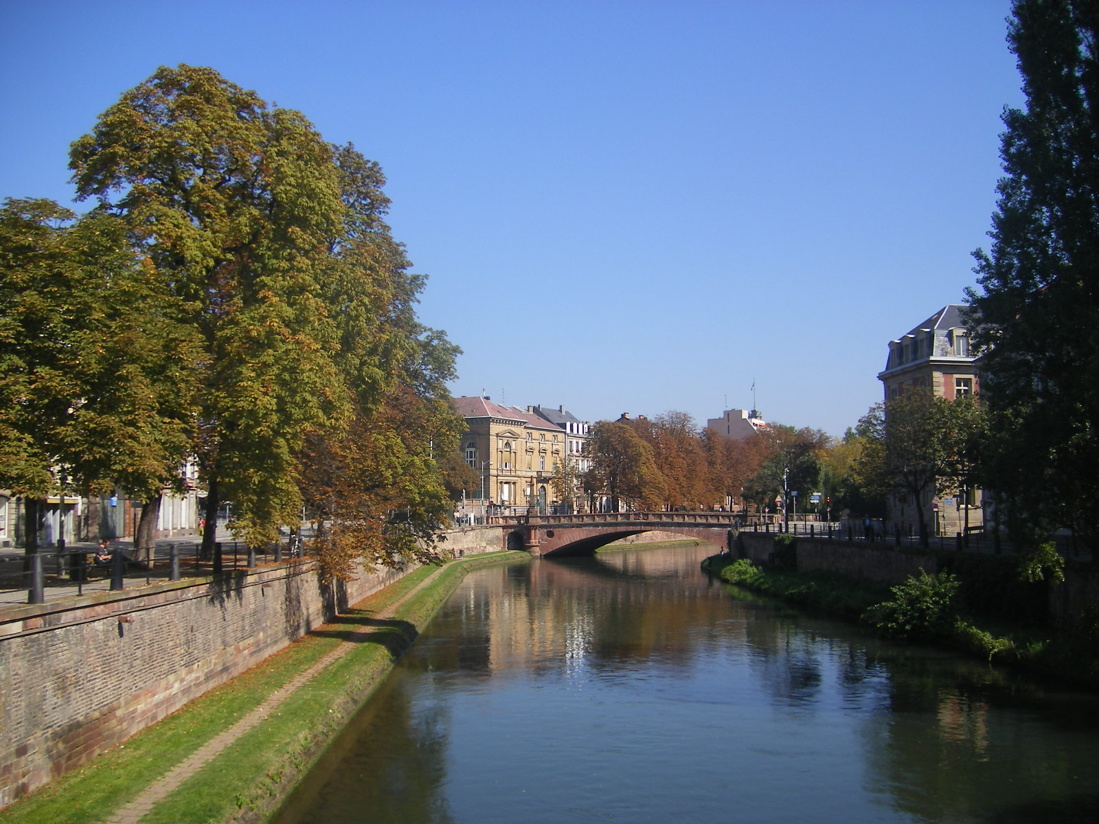 Strasbourg